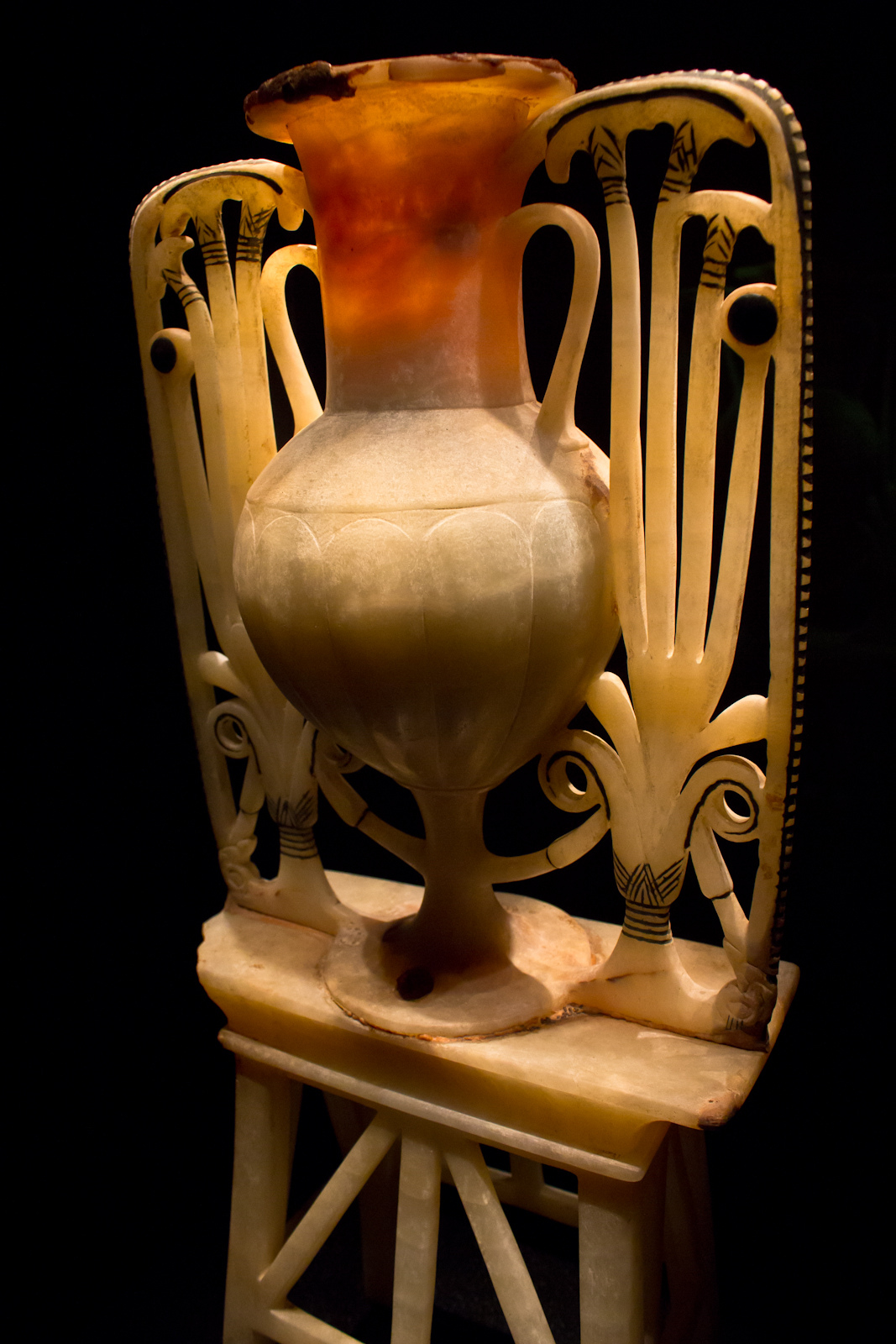 This is an alabaster vase originally found from the KV62 tomb of Tutankhamun. It is now part of the permanent collection of the Cairo Museum of Egypt. This photo was taken at the King Tut exhibition at the Pacific Science Center in Seattle, Washington State, USA.